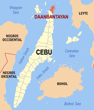 Map of Cebu showing the location of Daanbantayan